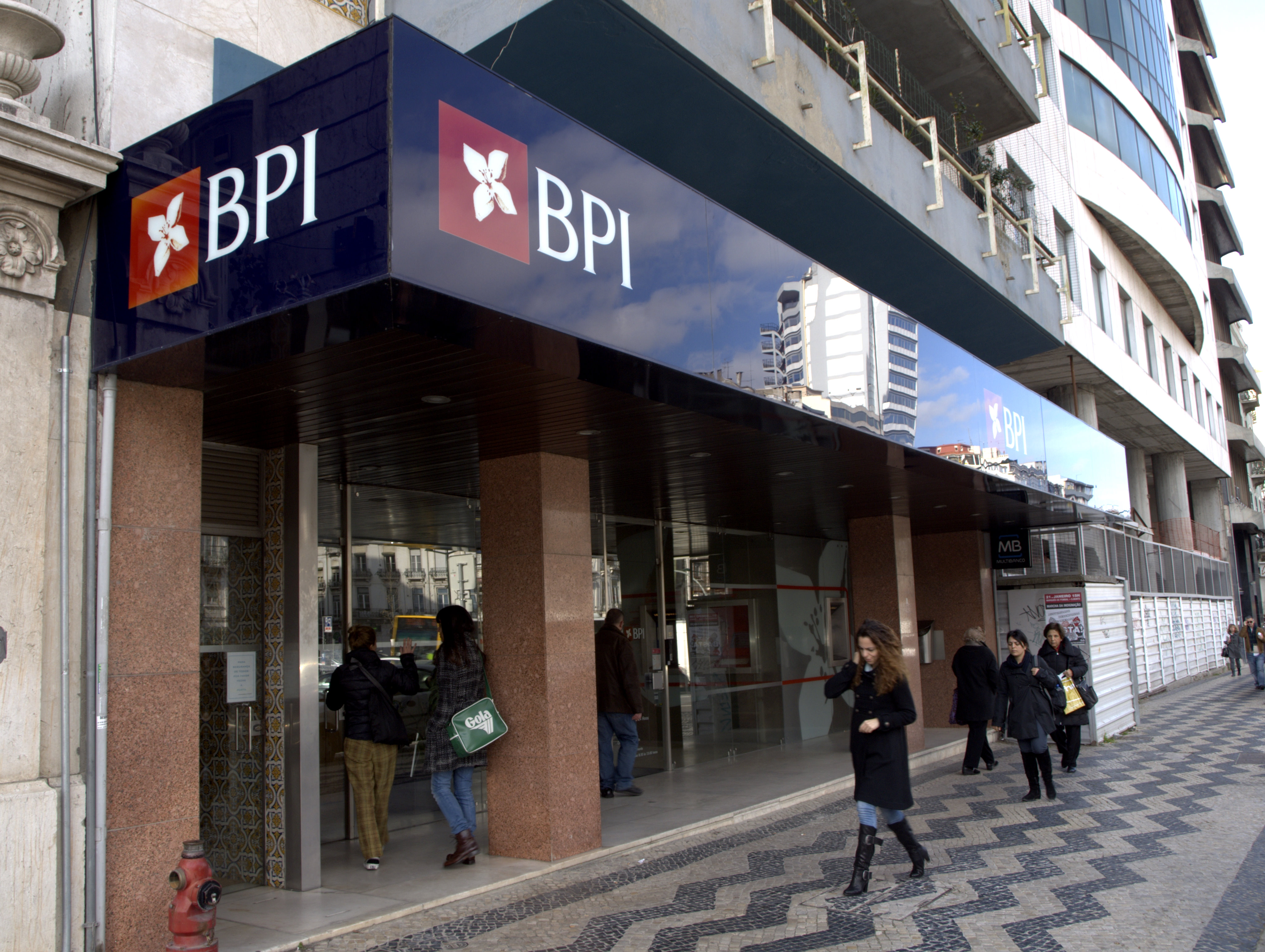 BPI Branch at Saldanha Square in Lisbon